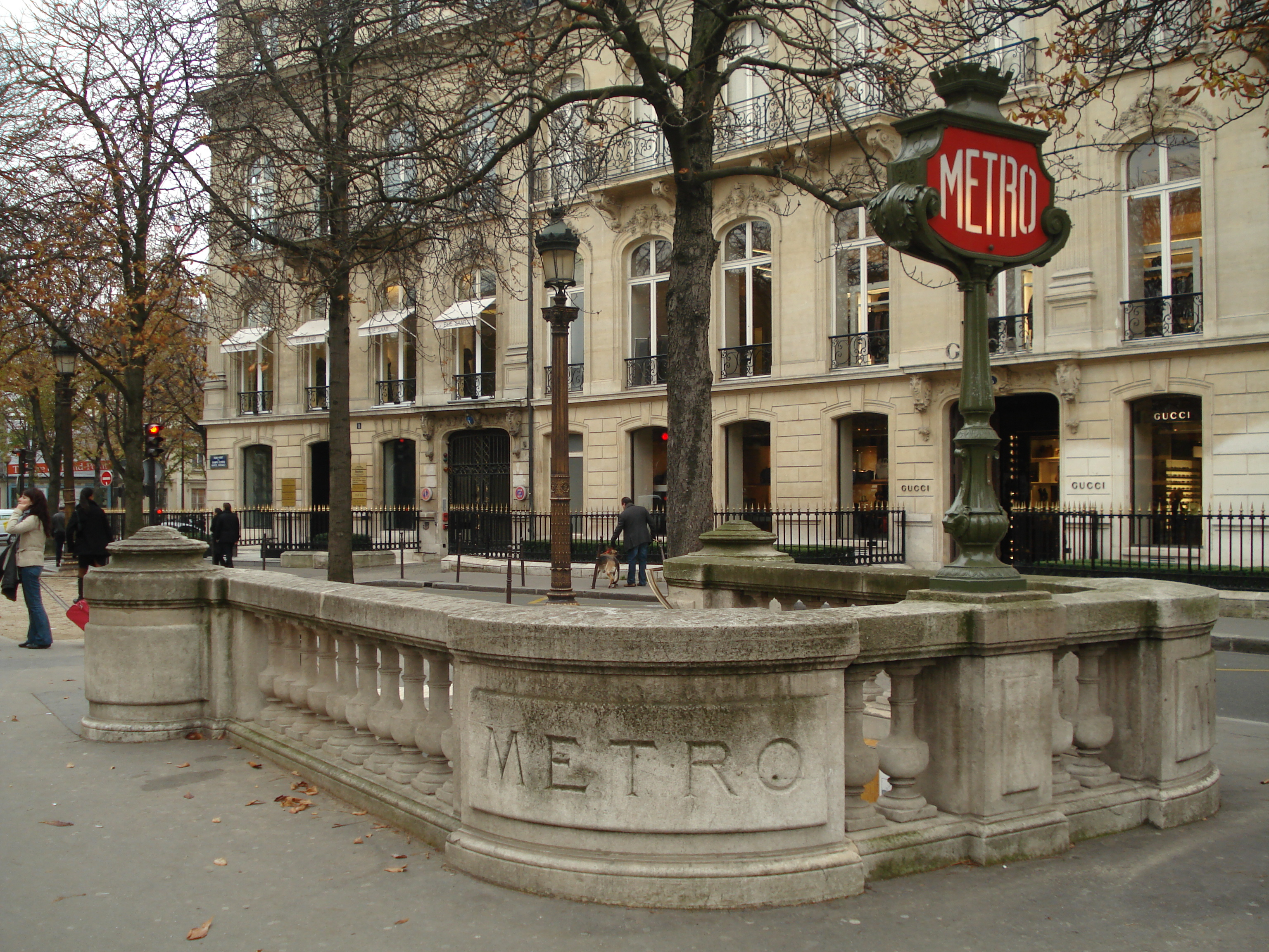 The Paris Métro (French: Métro de Paris) is the rapid transit system in Paris. It is a symbol of the city, notable for its homogeneous architecture, influenced by Art Nouveau. It has 16 lines, mostly underground, and a total length of 213 km (133 mi). There are 298 stations. Since some are on more than one line, there are 382 stops. Paris has the most closely spaced subway stations in the world, with 245 stations within the 41 square kilometres (16 sq mi) City of Paris. Lines are numbered 1 to 14, with two minor lines, 3bis and 7bis. The minor lines were originally part of lines 3 and 7 but became independent. "7bis" would be written 7A in English. Lines are identified on maps by number and colour. Direction of travel is shown by the terminus station. Paris is the second busiest metro system in Europe after Moscow. It carries 4.5 million passengers a day. It carried 1.365 billion in 2005. Châtelet-Les Halles is the world's largest underground station. in Wikipedia See where this picture was taken. [?]